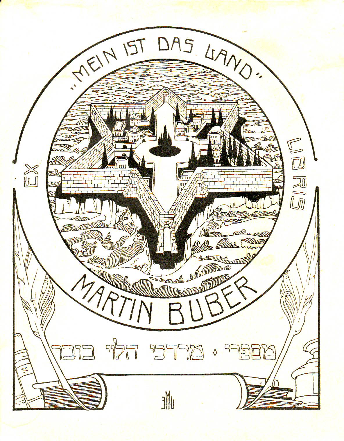 One of Lilien’s most noted works was the plate done for Martin Buber. The plate is adorned with the walls of Jerusalem in the shape of a Shield of David, viewed from above. The inscription boldly states, “Das Ist Mein Land” (That is my country).